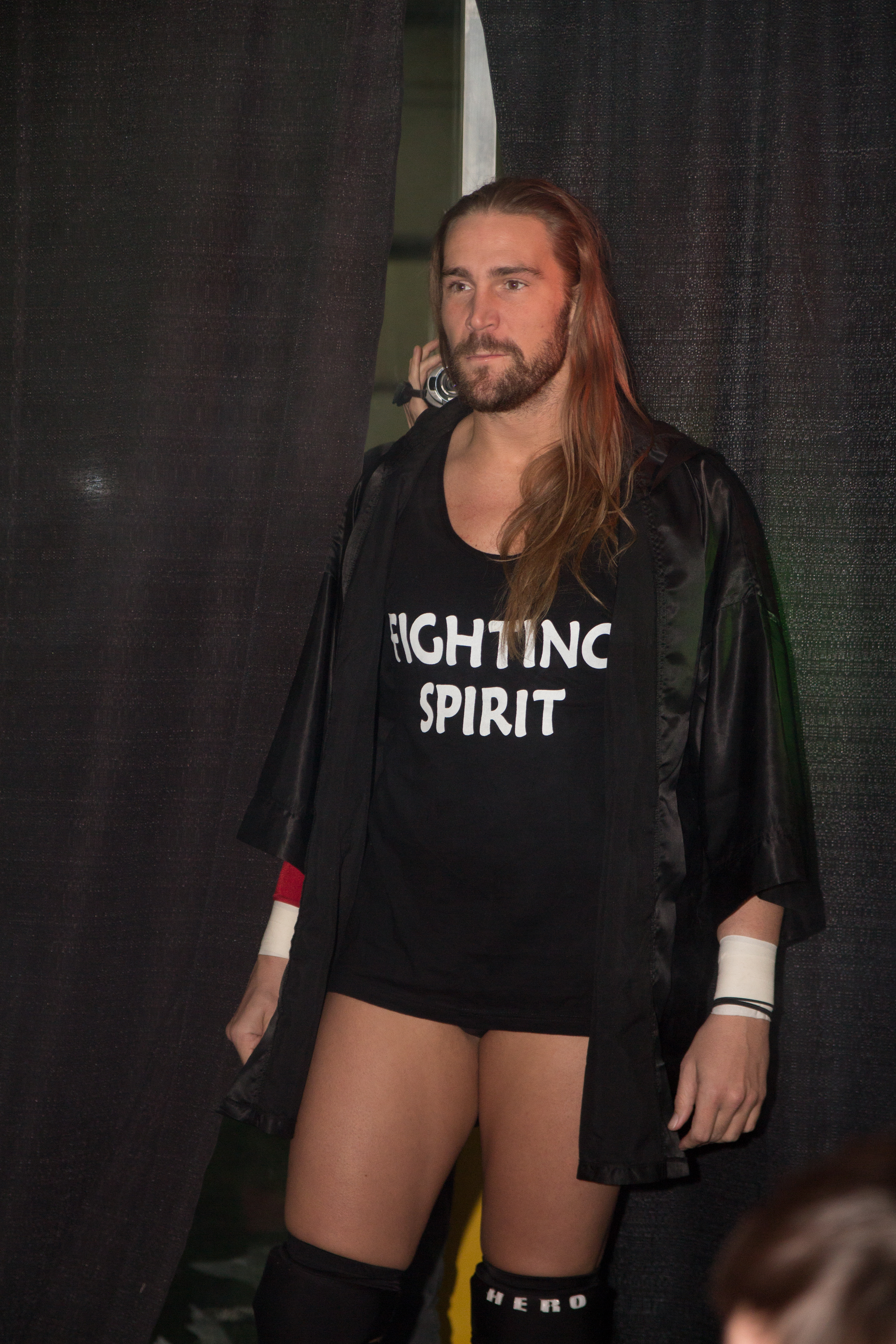 Chris Hero making his way to the ring at Smash Wrestling's Tapped Out in Mississauaga, ON